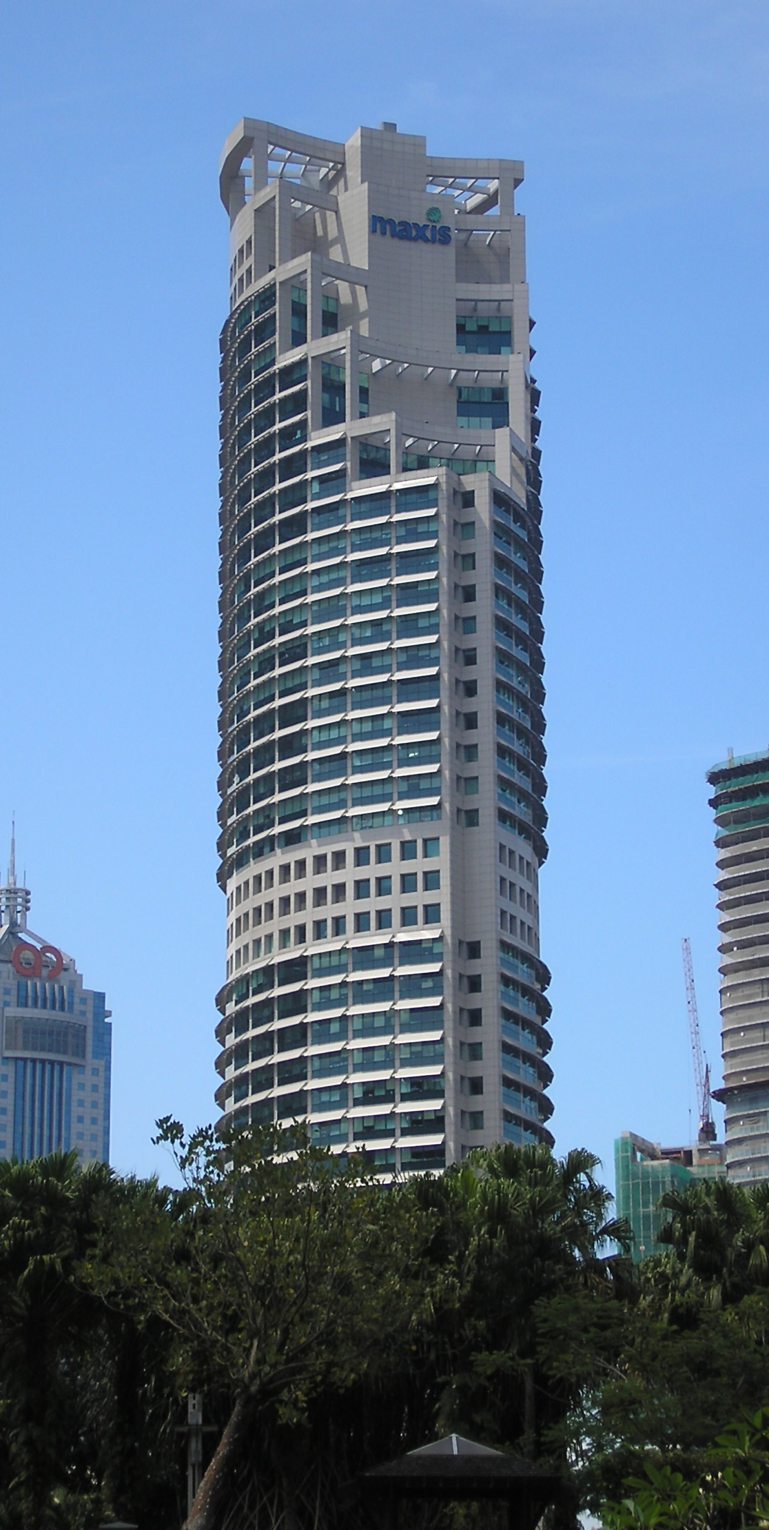 Maxis Tower at Jalan Ampang (Ampang Road), in the (new) Kuala Lumpur City Centre (KLCC), Kuala Lumpur, Malaysia. See also entry at Emporis.